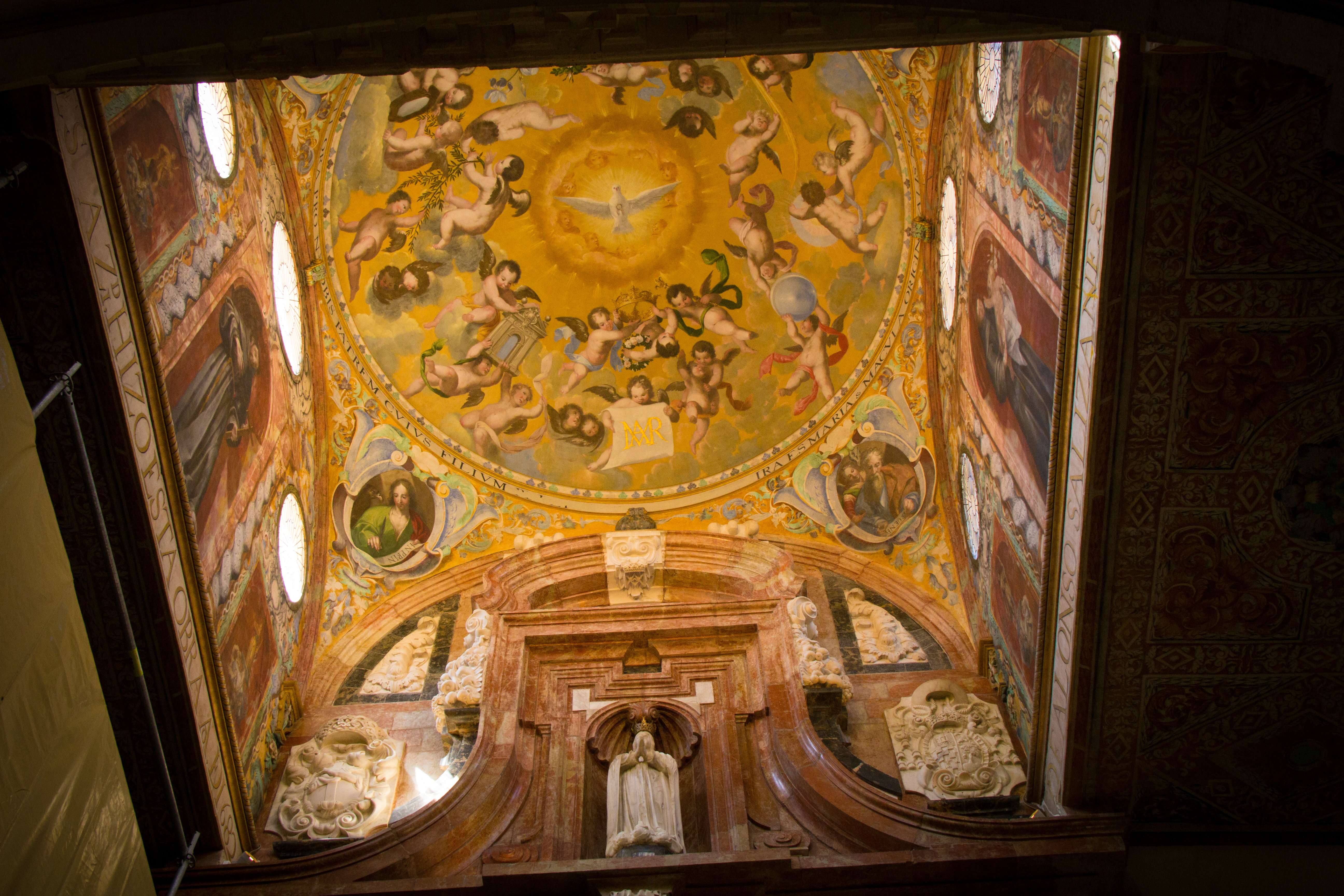 Córdoba, Spain.